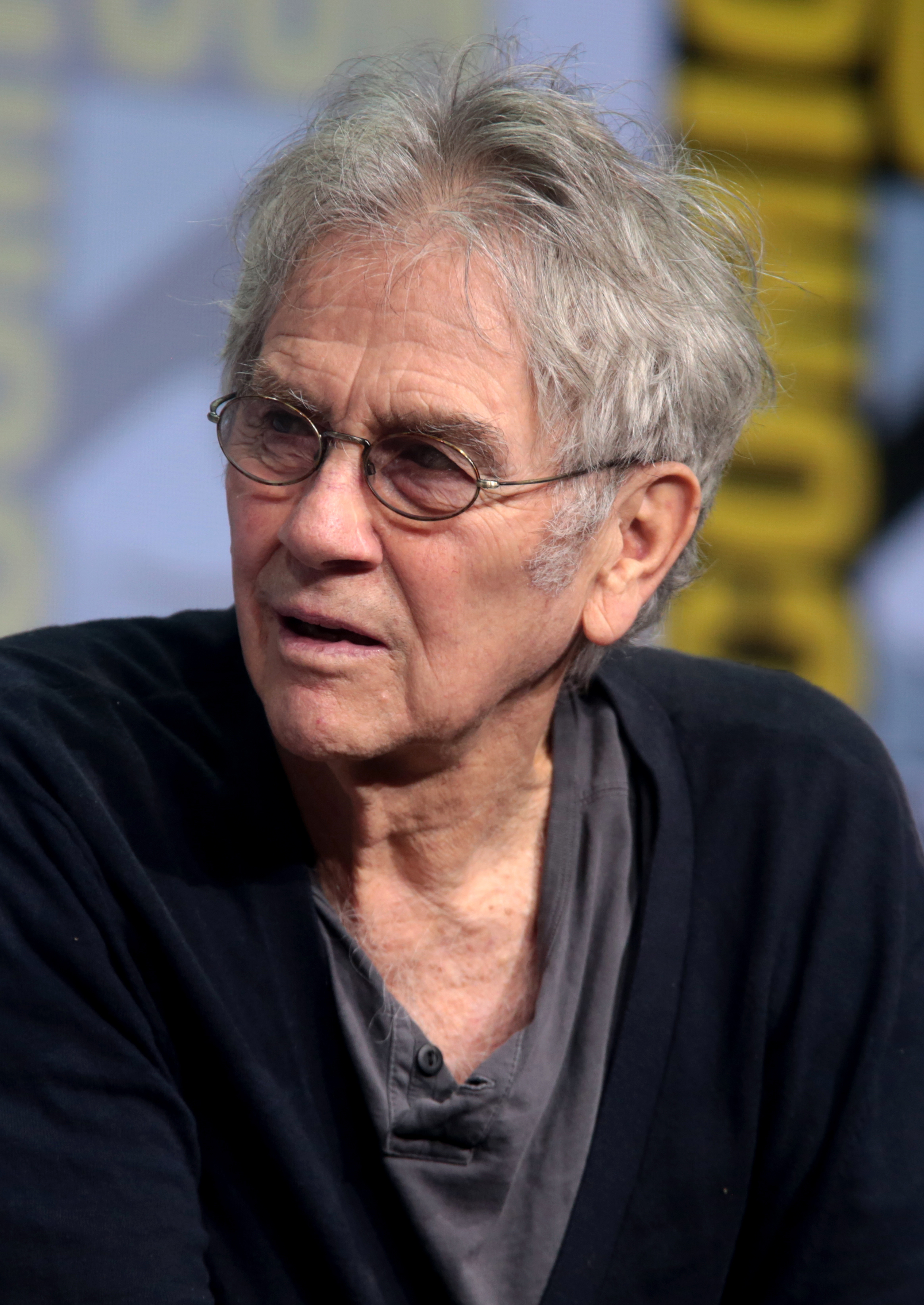 Hampton Fancher speaking at the 2017 San Diego Comic-Con International in San Diego, California.